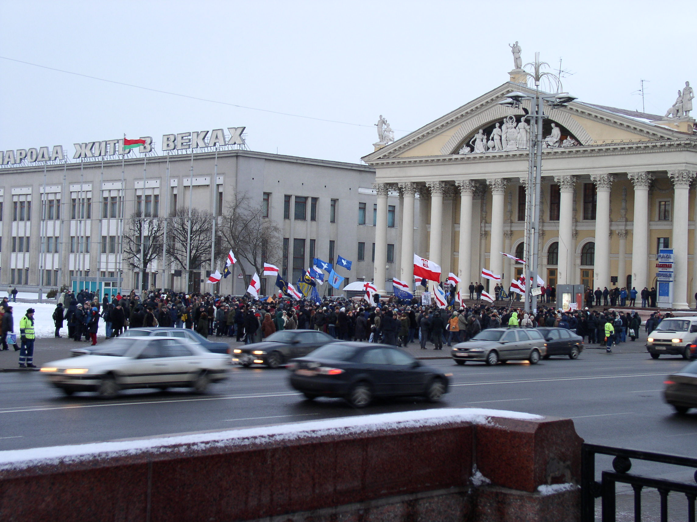 Opposition "Tent town". Minsk, Belarus.